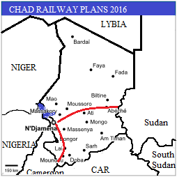 Map of the proposed Railway System in Chad, following an agreement between Chinese Companies, Cameroon and Chad.